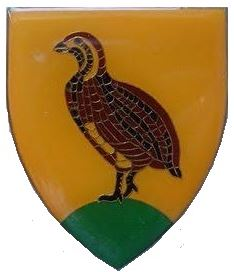 SADF era Bloemfontein District Commando emblem